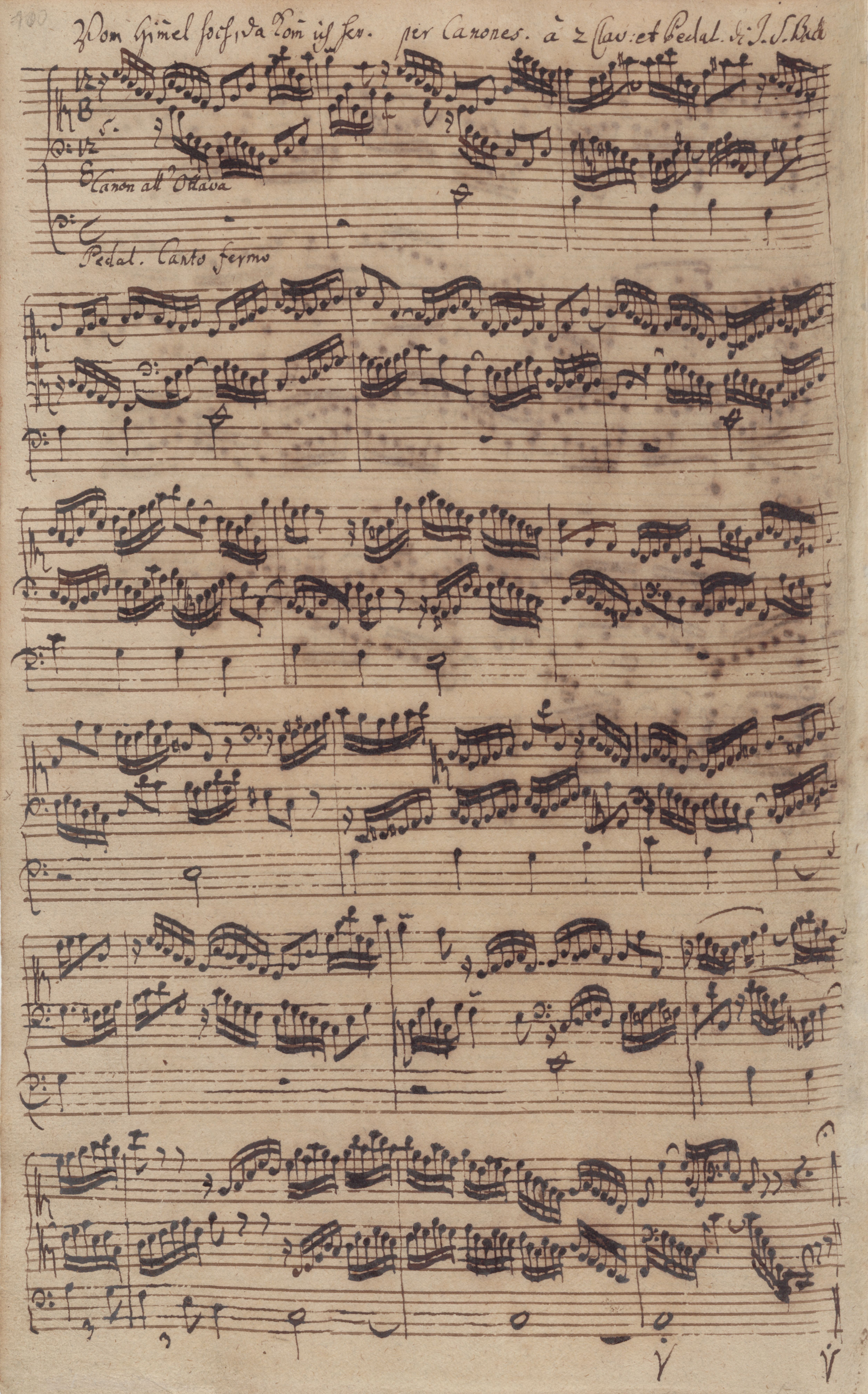 Autograph manuscript of Variatio I, Canonic Variations, BWV 769a, P 271.